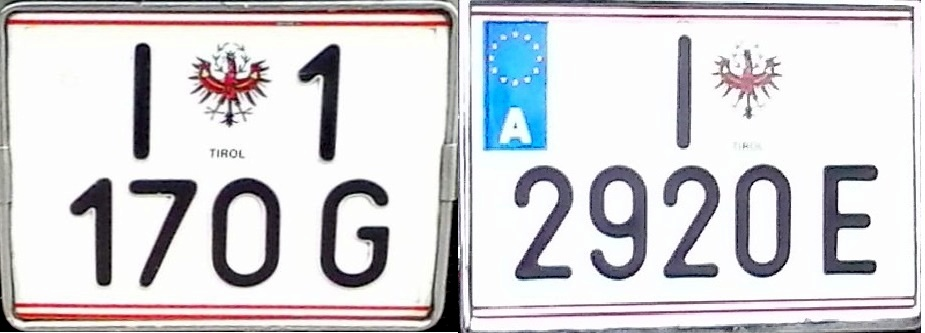 License plates of Austria, two lines - old and new version